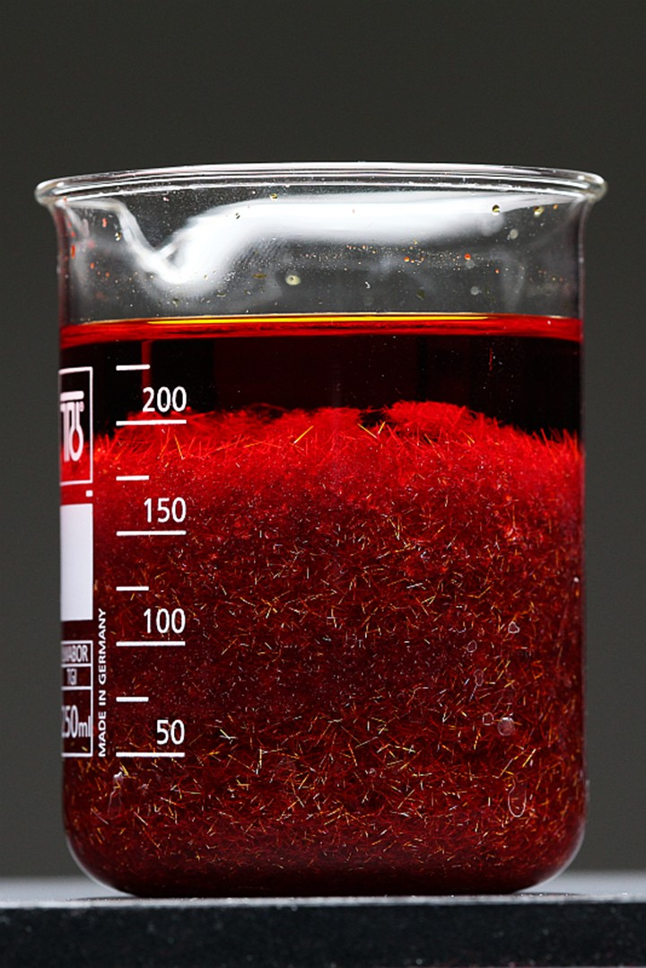 Reaction between potassium dichromate and sulfuric acid: Chromium(VI) oxide crystals